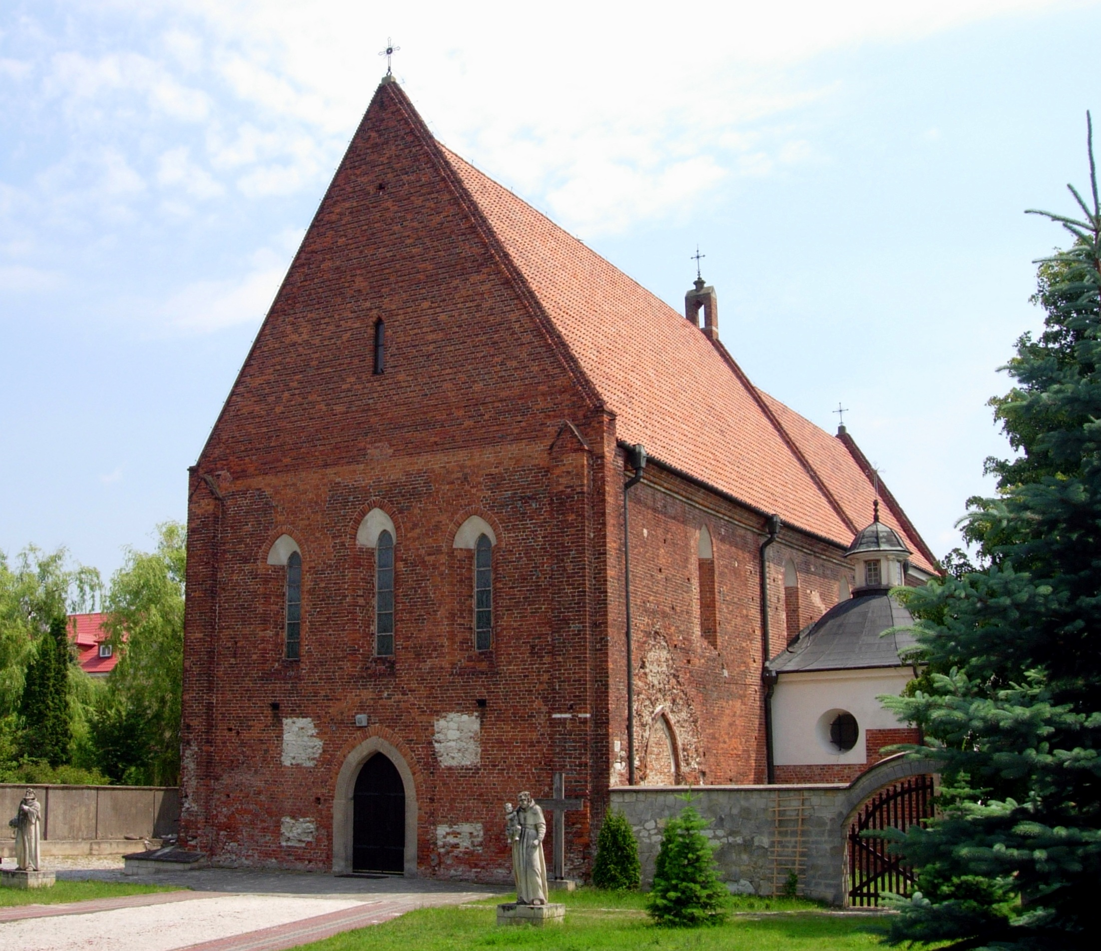 Saint John the Baptist Church in Zawichost, Poland